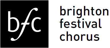 The new logo of the Brighton Festival Chorus from 2015